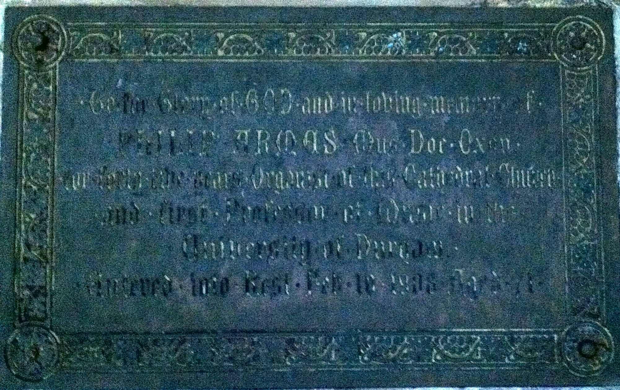 Philip Armes was organist from 1867 to 1907.